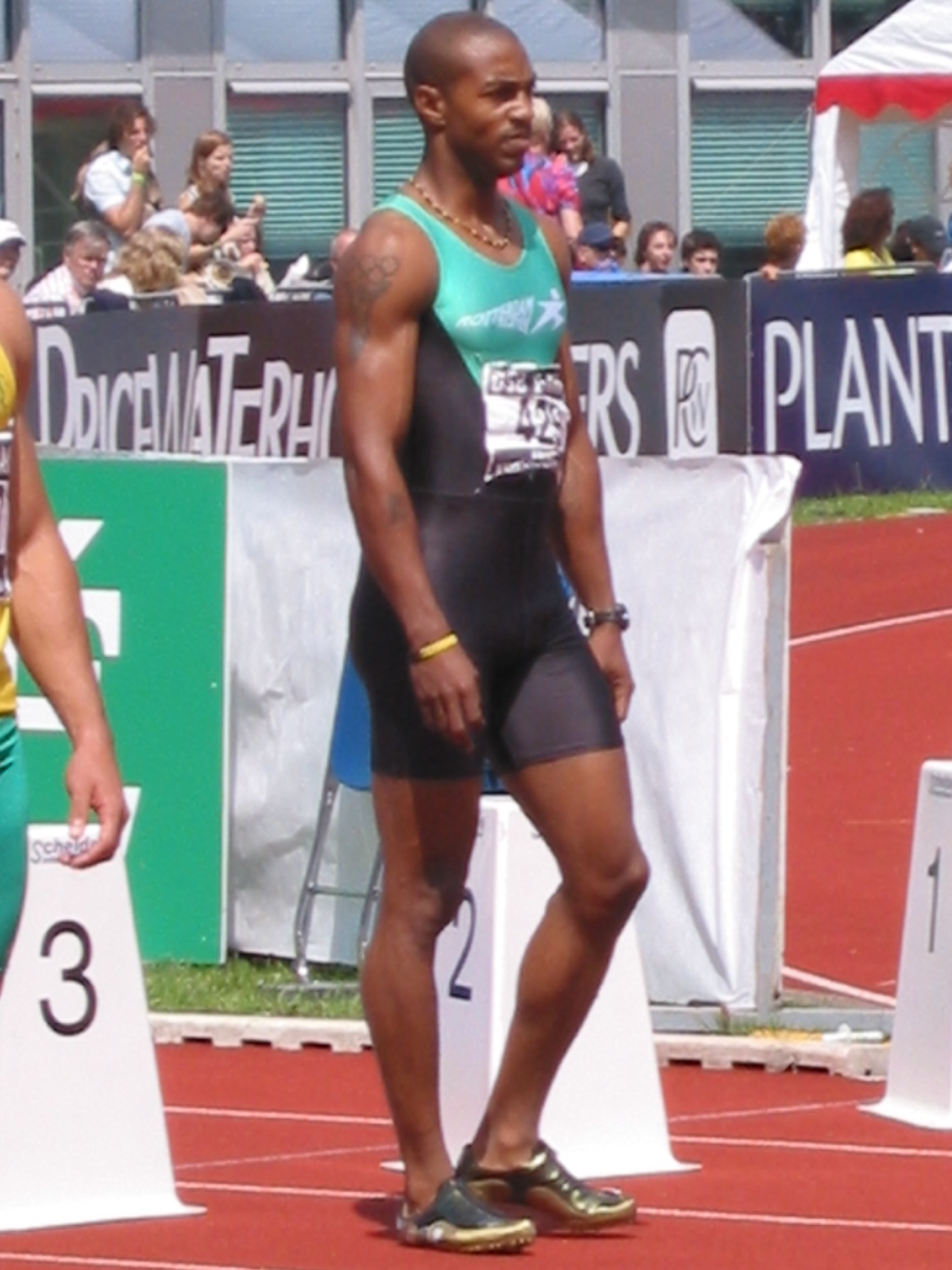 Brian Mariano, Dutch Championship 2007, Amsterdam, 100 meter